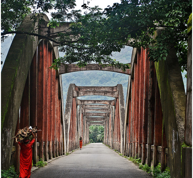 Neriamangalam Bridge :Gate way of highranges